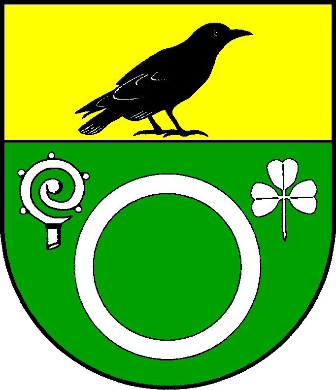 Coat of arms of the municipality Warnau in Schleswig-Holstein, Germany.